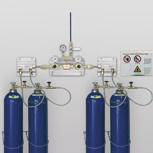 This is a custom built gas manifold system that can be implemented into an inductively coupled plasma system